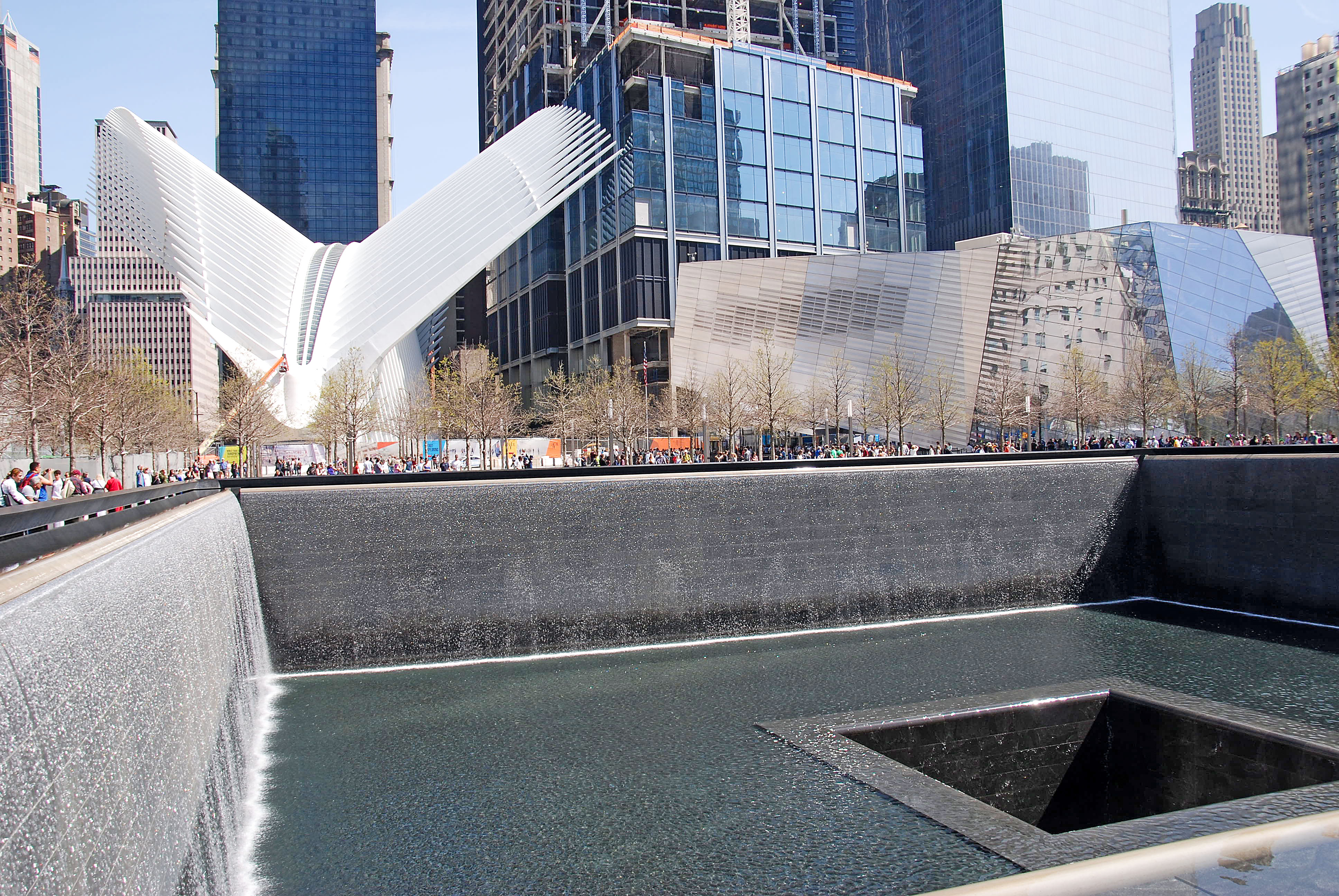 'The Oculus' is the newly opened main hall of the World Trade Center transit hub. An oculus is defined as a circular or oval window; or a circular opening at the top of a dome New York's Oculus was designed by Santiago Calatrava, and has been termed by The New York Times as 'an unearthly winged structure taking form at the new World Trade Center'. Also from The Times: 'It is a majestic and luminous space — framed by soaring, softly curving white ribs and the ribbons of light between them — that looks like nothing so much as the nave of a cathedral by Gaudí. Or like a turkey skeleton after it’s been stripped clean at Thanksgiving'. The debate over the $3.9 billion World Trade Center Transportation Hub, of which the Oculus is the aesthetic and retail centerpiece, is only beginning. Love it or hate it, however, there is no denying its magnitude'." DSC_0235 V1